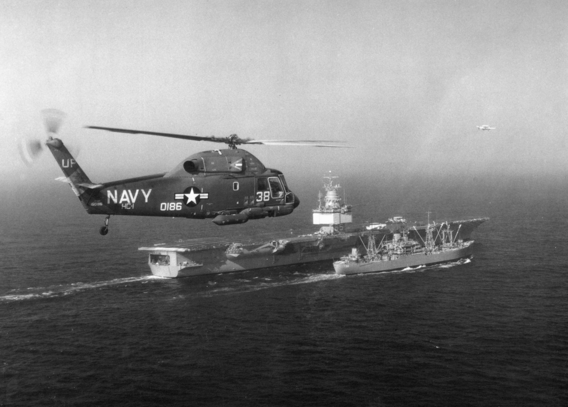 A U.S. Navy Kaman UH-2B Seasprite (BuNo 150186) of Helicopter Combat Support Squadron HC-1 flies the aircraft carrier USS Enterprise (CVAN-65) in November 1966. The only other aircraft visible are three Grumman E-2A Hawkeye from Airborne Early Warning Squadron VAW-112 Golden Hawks. The Big E is being replenished by the ammunition ship USS Virgo (AE-30) and was working up for a deployment to Vietnam from 19 November 1966 to 6 July 1967.